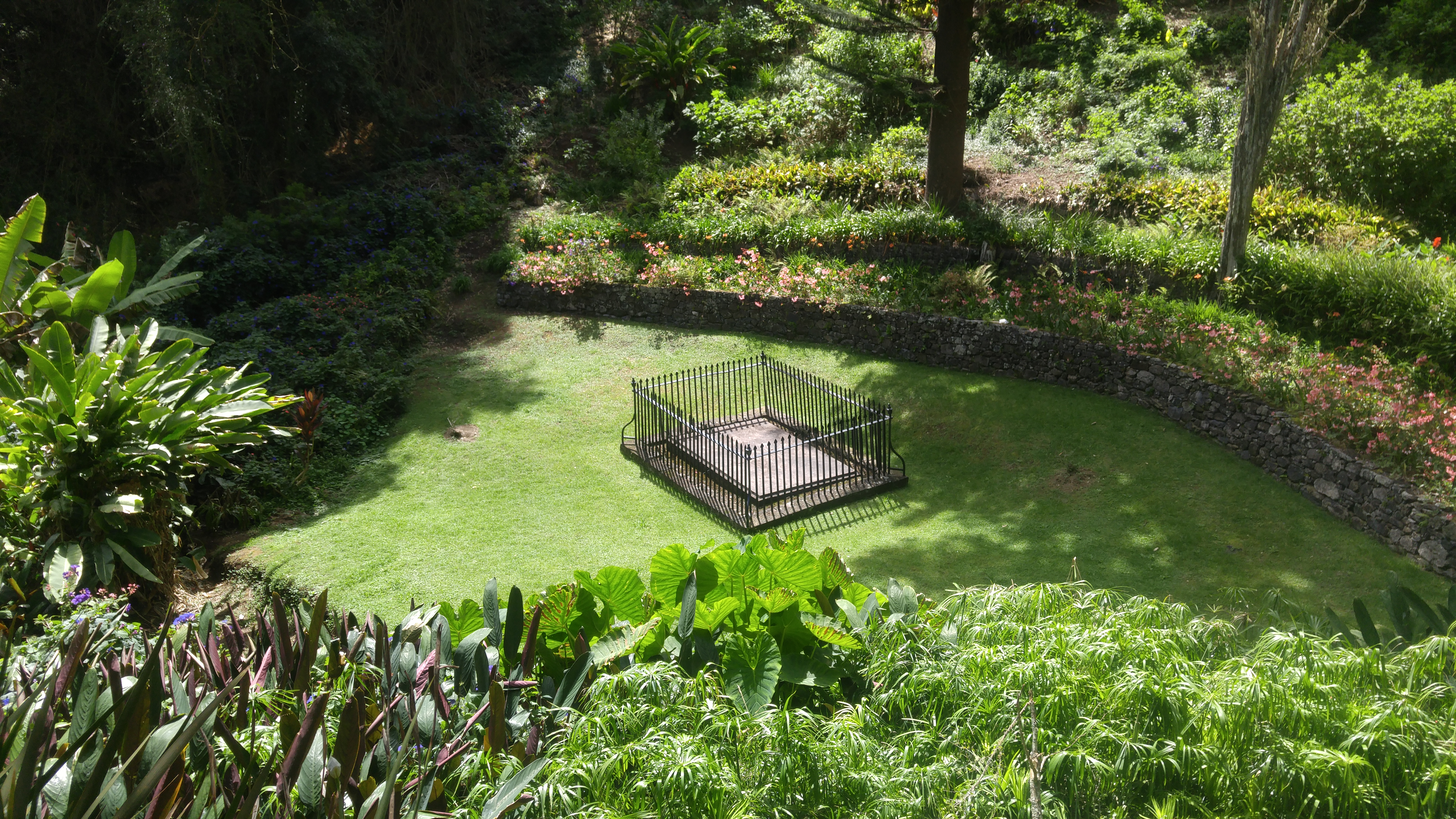 a flat unmarked tomb with an iron gate around it in the middle of a round grassy glade. There are various beds of flowers on the well-tended site